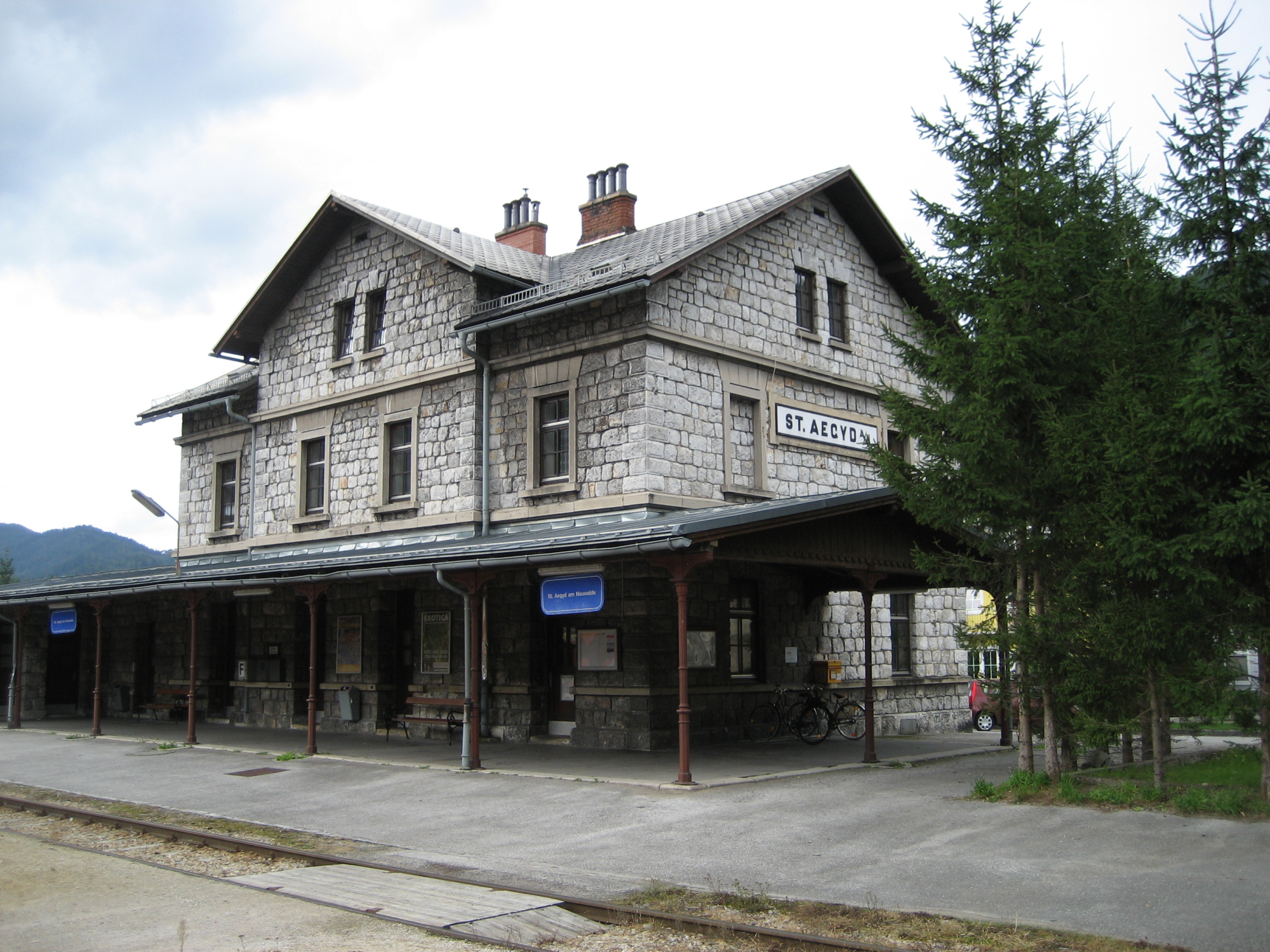 St. Aegyd am Neuwalde train station in Lower Austria